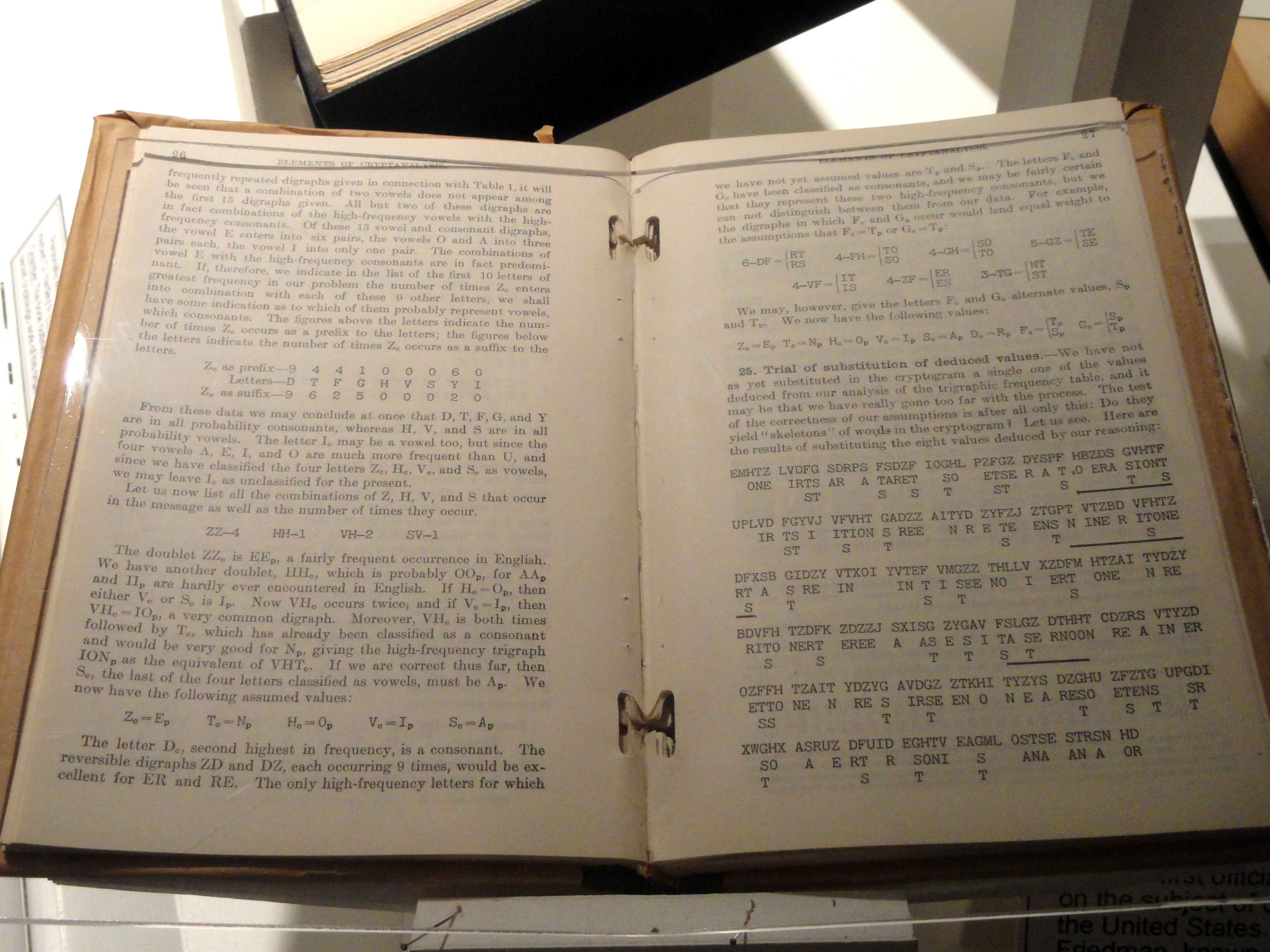 Exhibit in the National Cryptologic Museum, Fort Meade, Maryland, USA. All items in this museum are unclassified; items created by the United States Government are not subject to copyright restrictions.